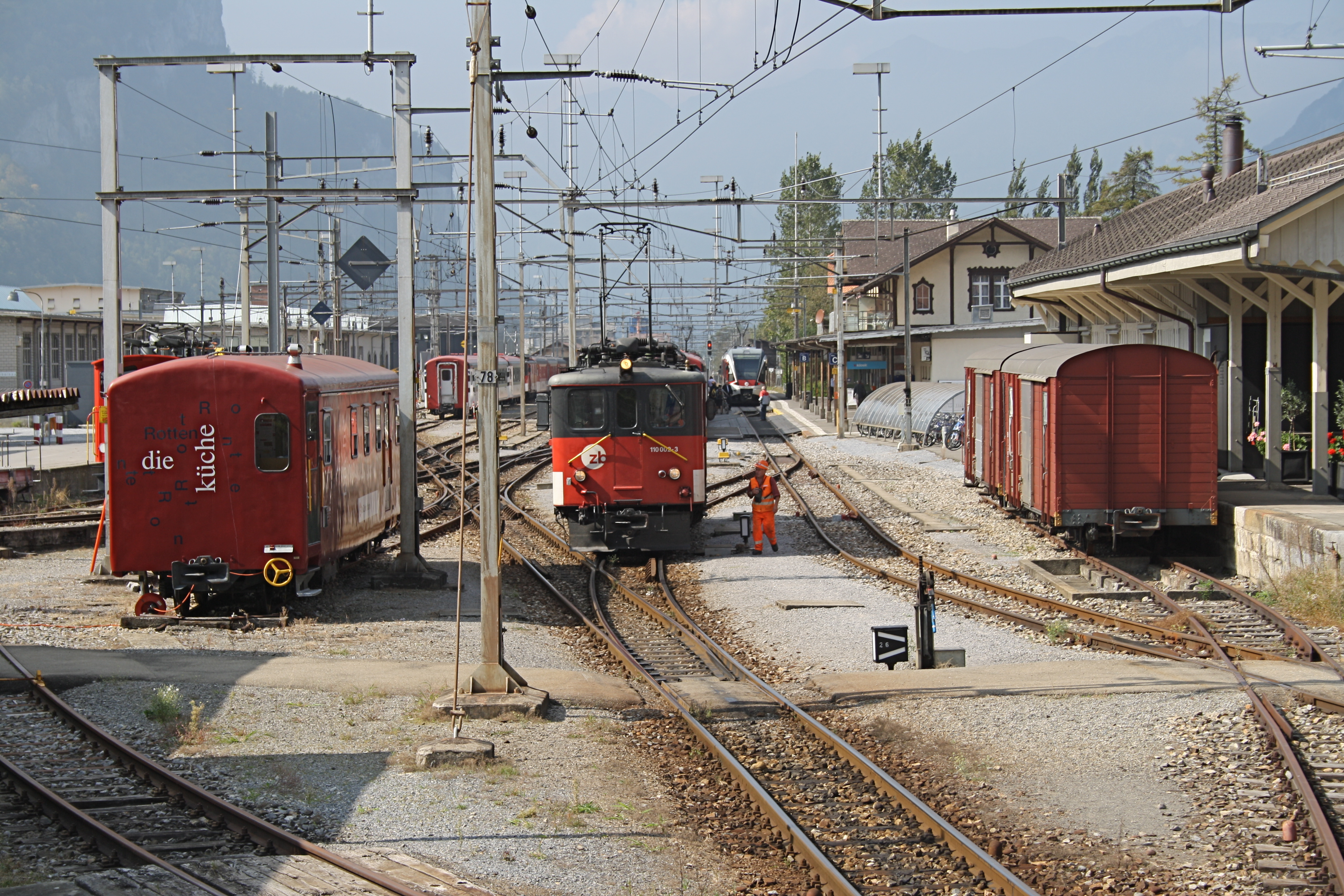 Meiringen railway station looking west, prior to remodelling. All the tracks in the foreground of this shot have since been lifted, with the site of the locomotive now occupied by a concourse across the ends of tracks 1 and 2, which have thus been turned into west-facing stub terminal platform tracks. Compare this with this view from roughly the same position after the remodelling.